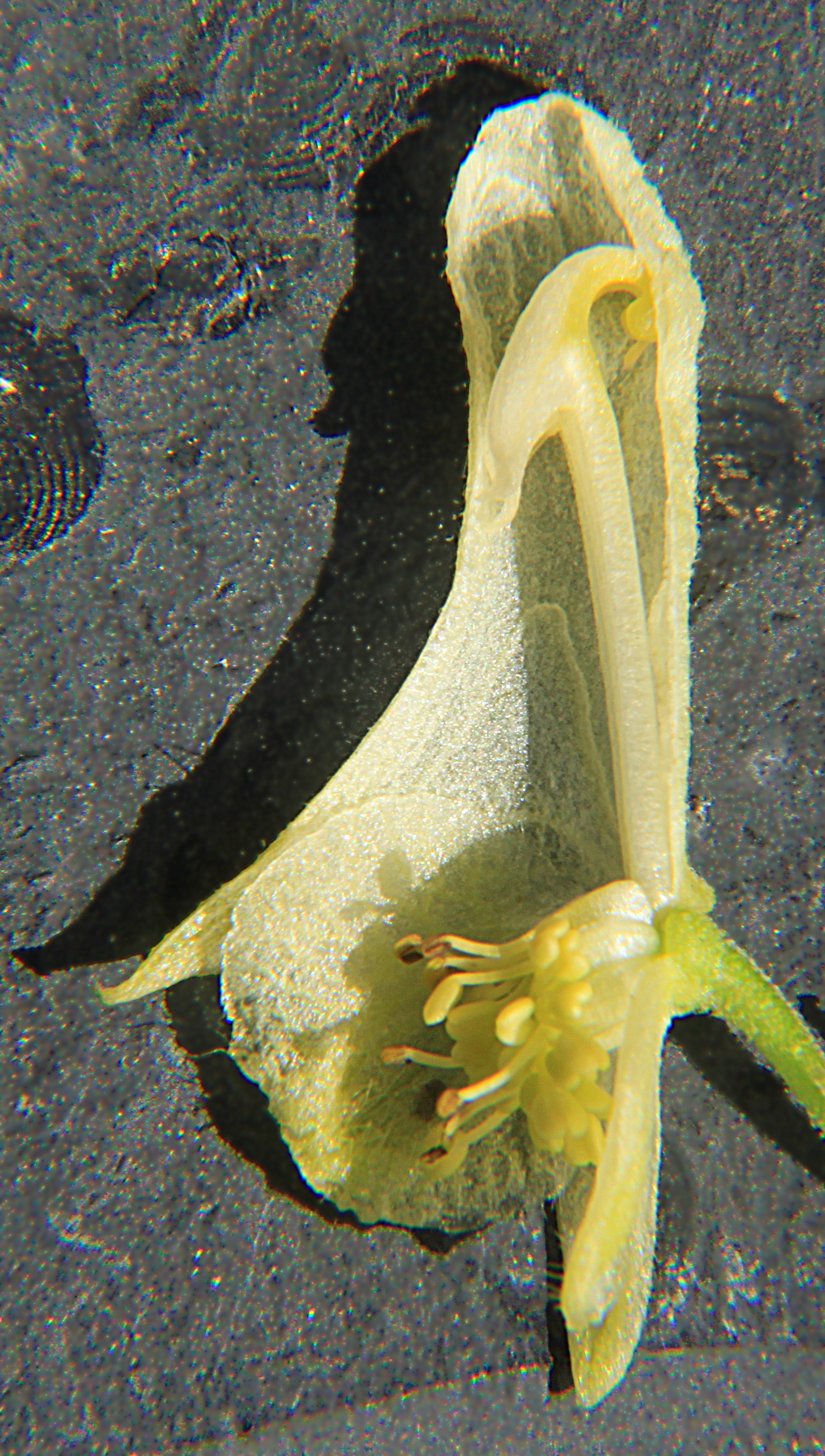 Disected flower of the Wolfsbane Aconitum vulparia, lateral view, maximum length about 25mm, showing the two upper petals, that function as nectaries. They have a hollow spur at their apex, containing the nectar.